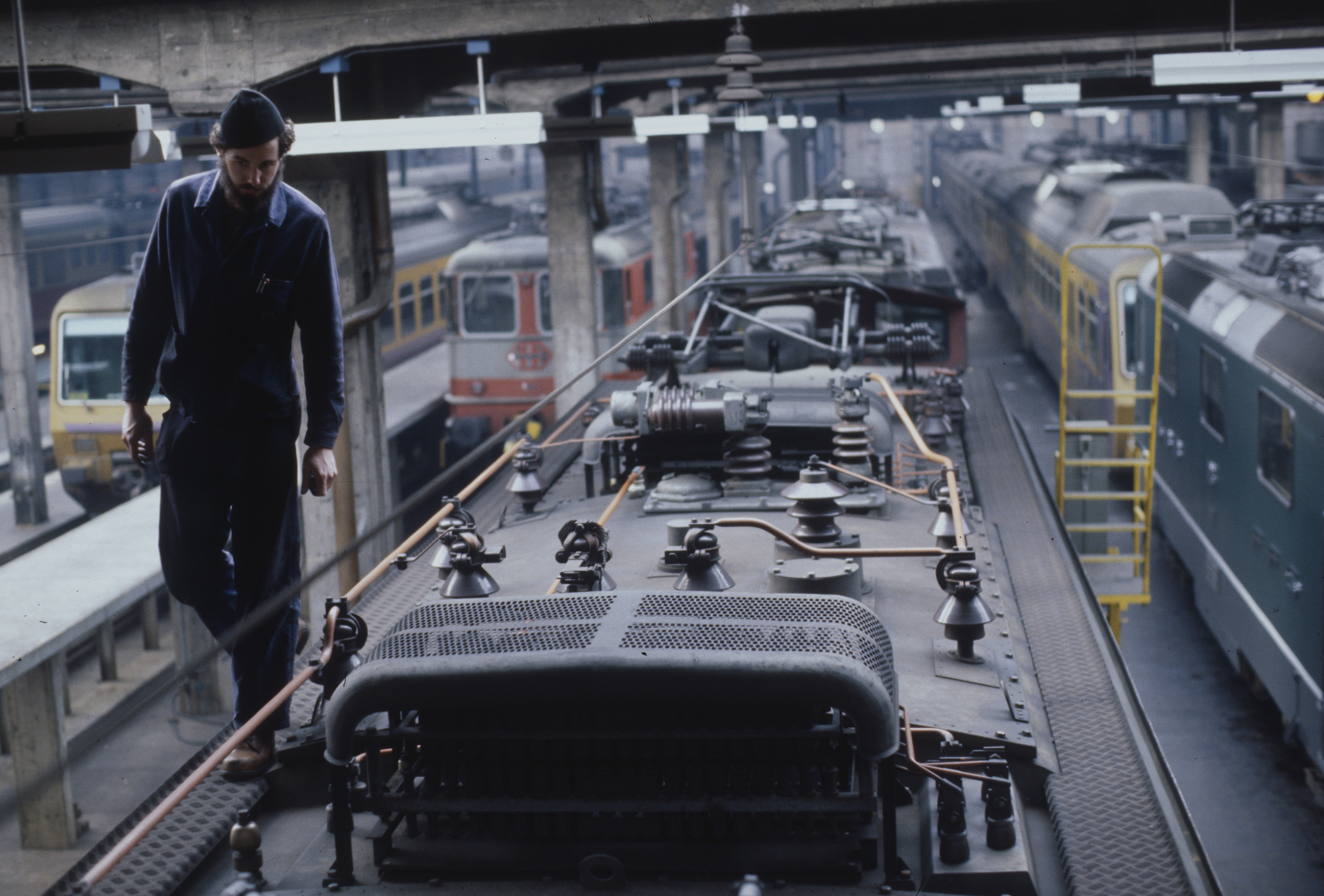 SBB-Depot G (Geroldstrasse), im Vordergrund: vermutlich das Dach einer Ae 6/6, links: eine Chiquita und eine SwissExpress-BoBo, rechts: eine Re 4/4‘‘ (zuweilen genannt BoBo) und eine weitere Chiquita